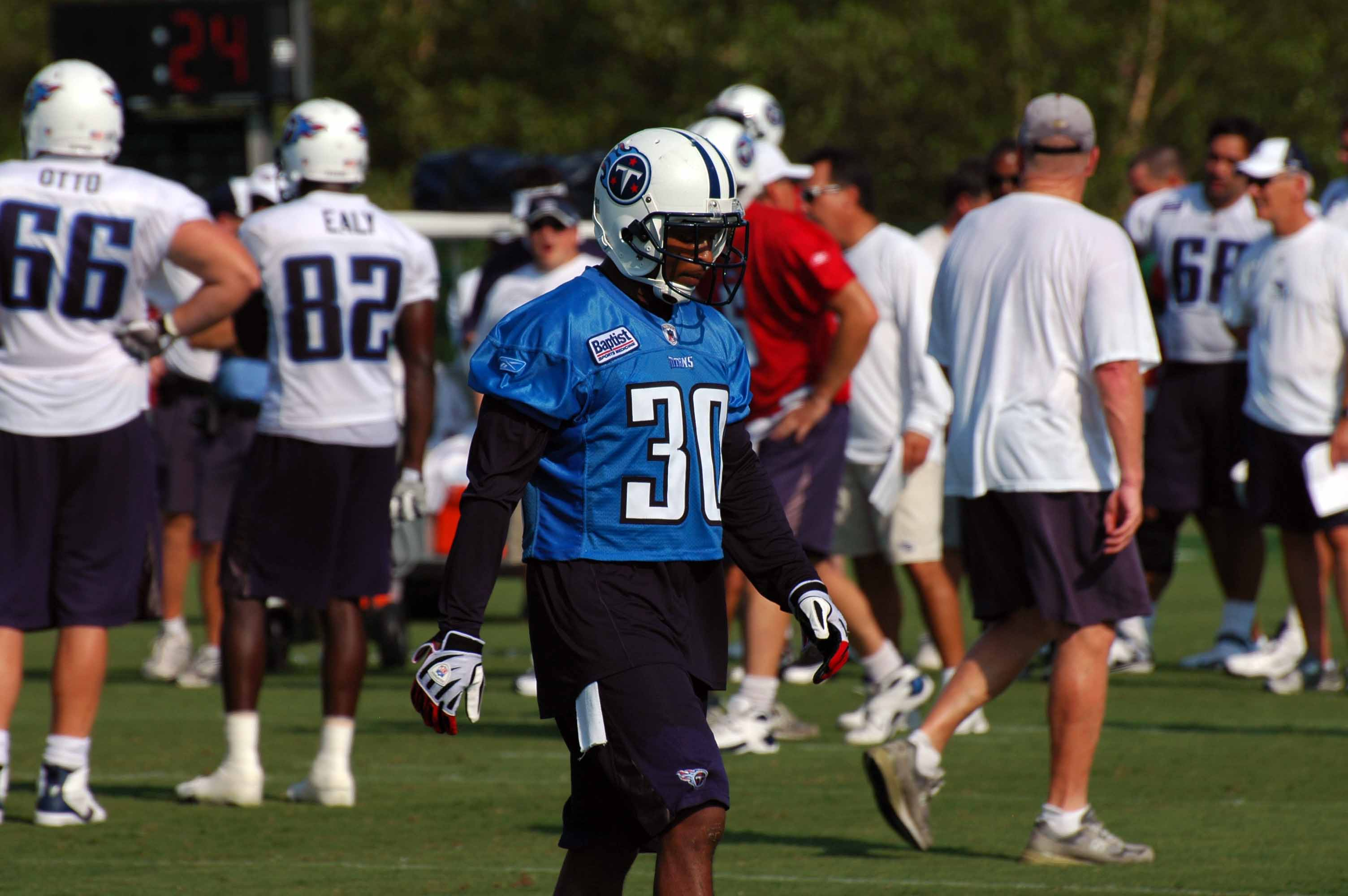 Tennessee Titans cornerback, Eric King, at training camp on July 26, 2008.